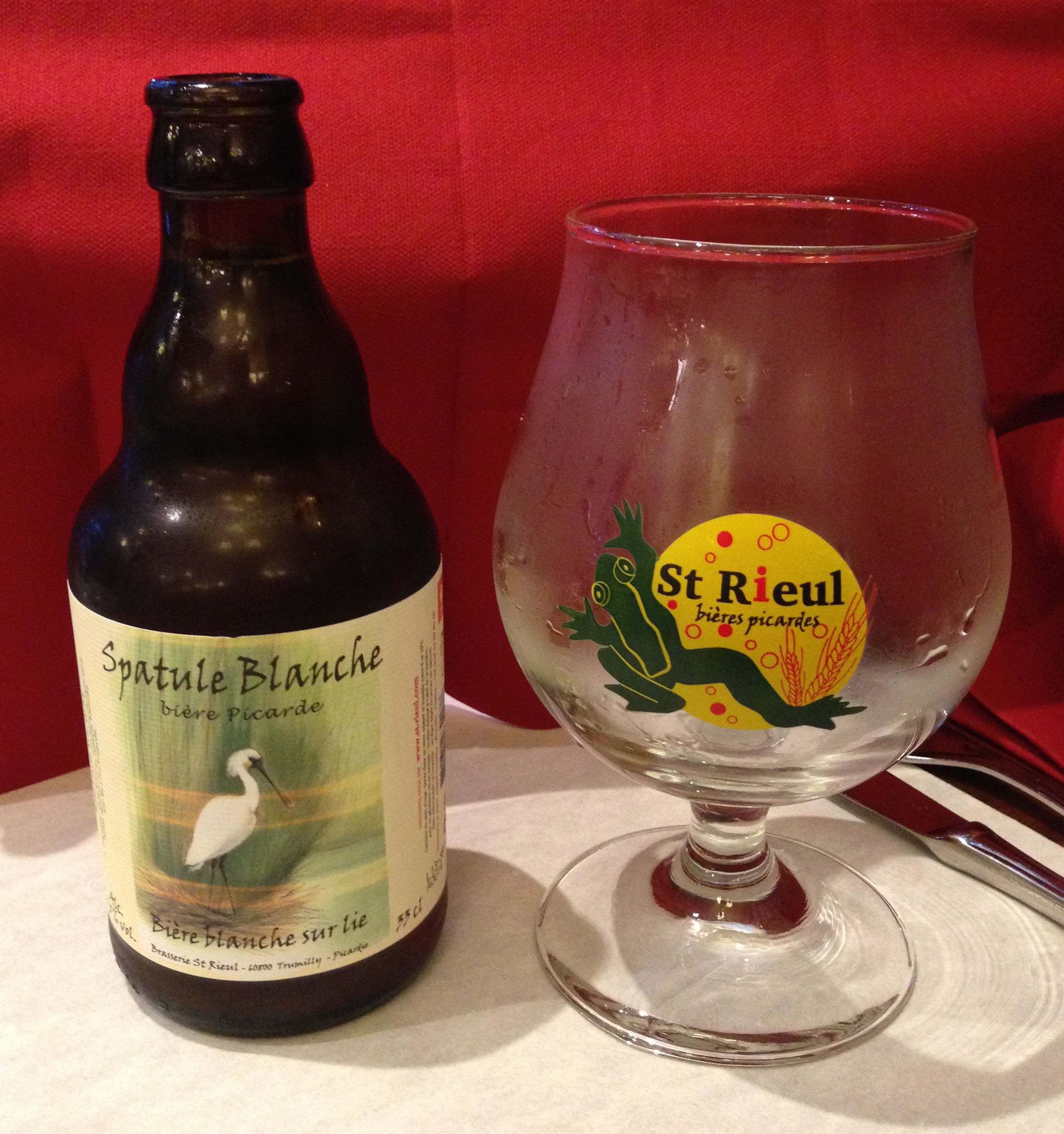 Spatule blanche Beer (St Rieul brewery)